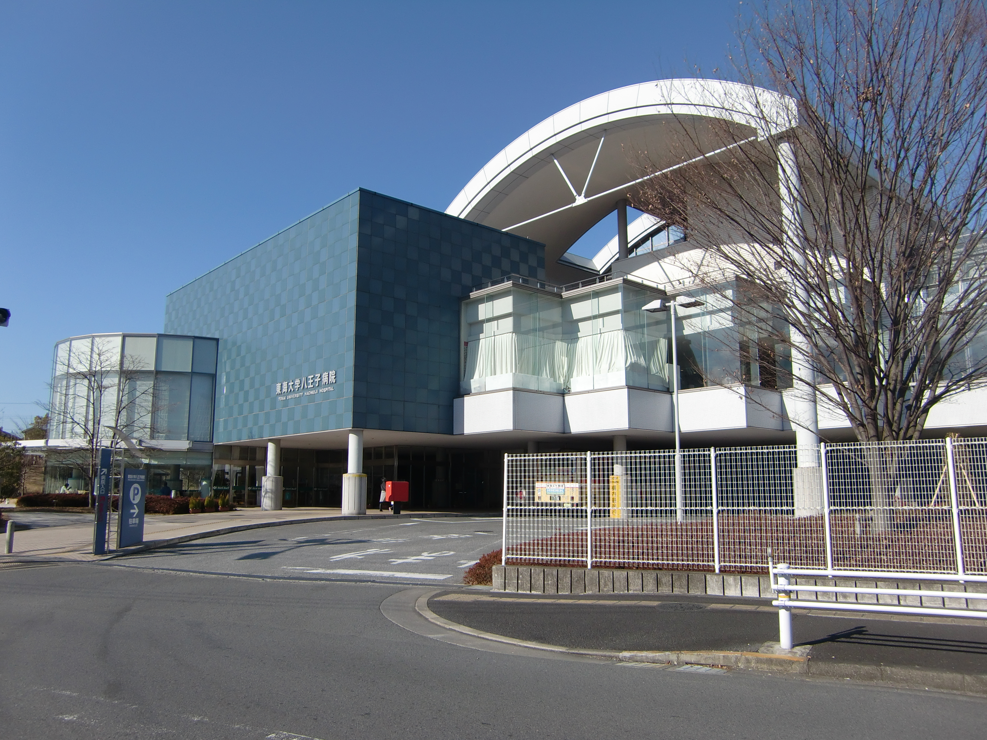 Tokai University Hachioji Hospital